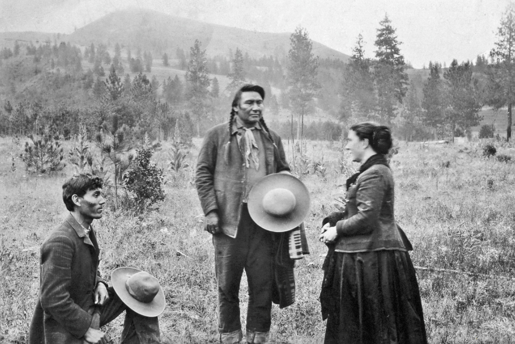 Alice Cunningham Fletcher and Chief Joseph at the Nez Percé Lapwai Reservation in Idaho, where Fletcher arrived in 1889 to implement the Dawes Act. The man on one knee is James Stuart, Alice Fletcher's interpreter. According to Jane Gay in "With the Nez Perces" (University of Nebraska Press, 1981), Stuart customarily kneeled in this way when he felt anxious. Photograph provided by Jane Gay. (Courtesy Smithsonian Institution, National Anthropological Archives [MS4558].)